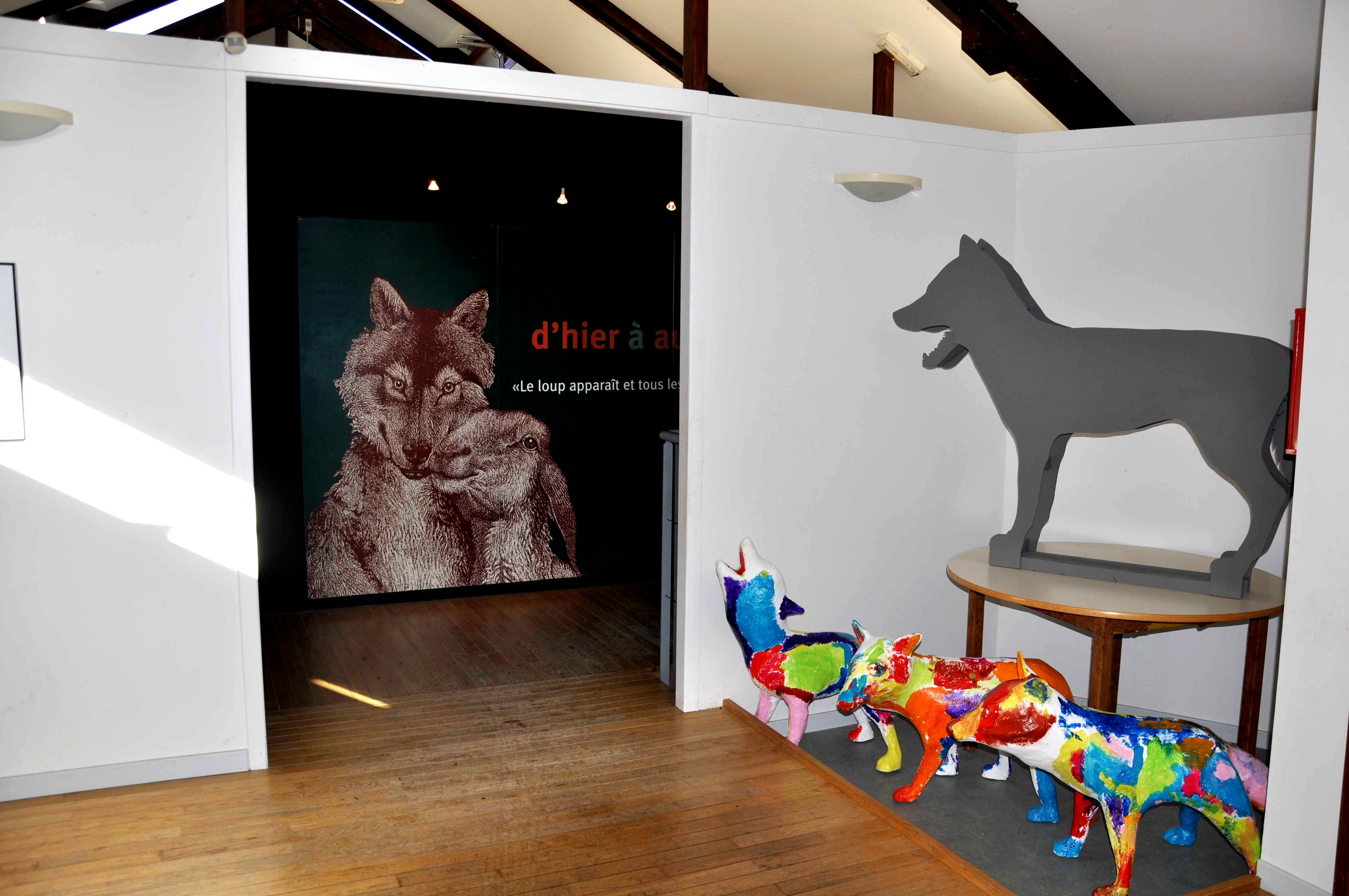 Inside the Wolves of Chabrieres museum.